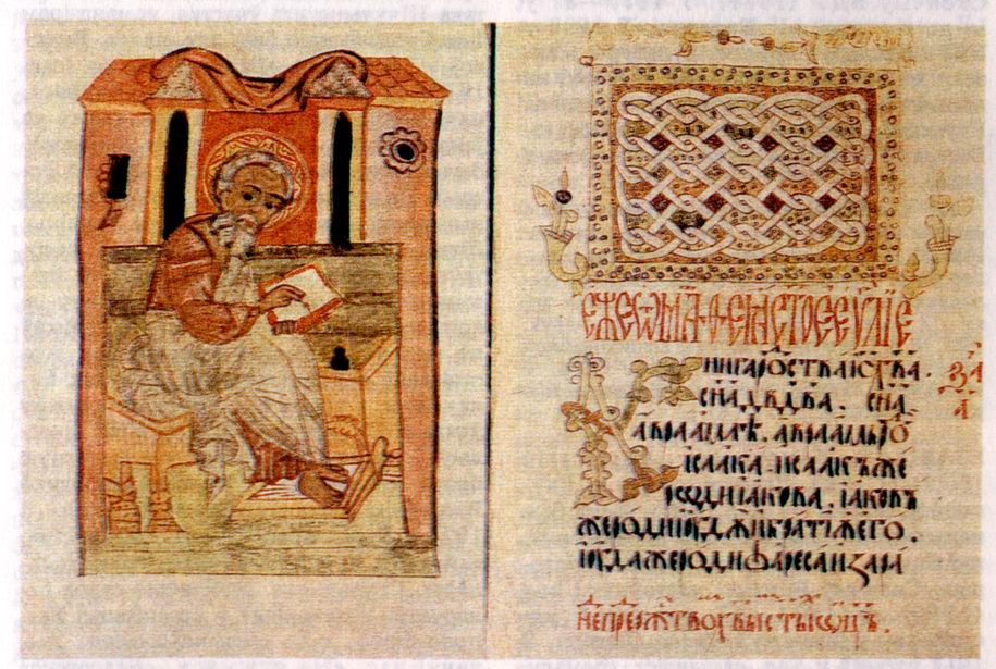 Facing pages of the Sherashawa Gospel